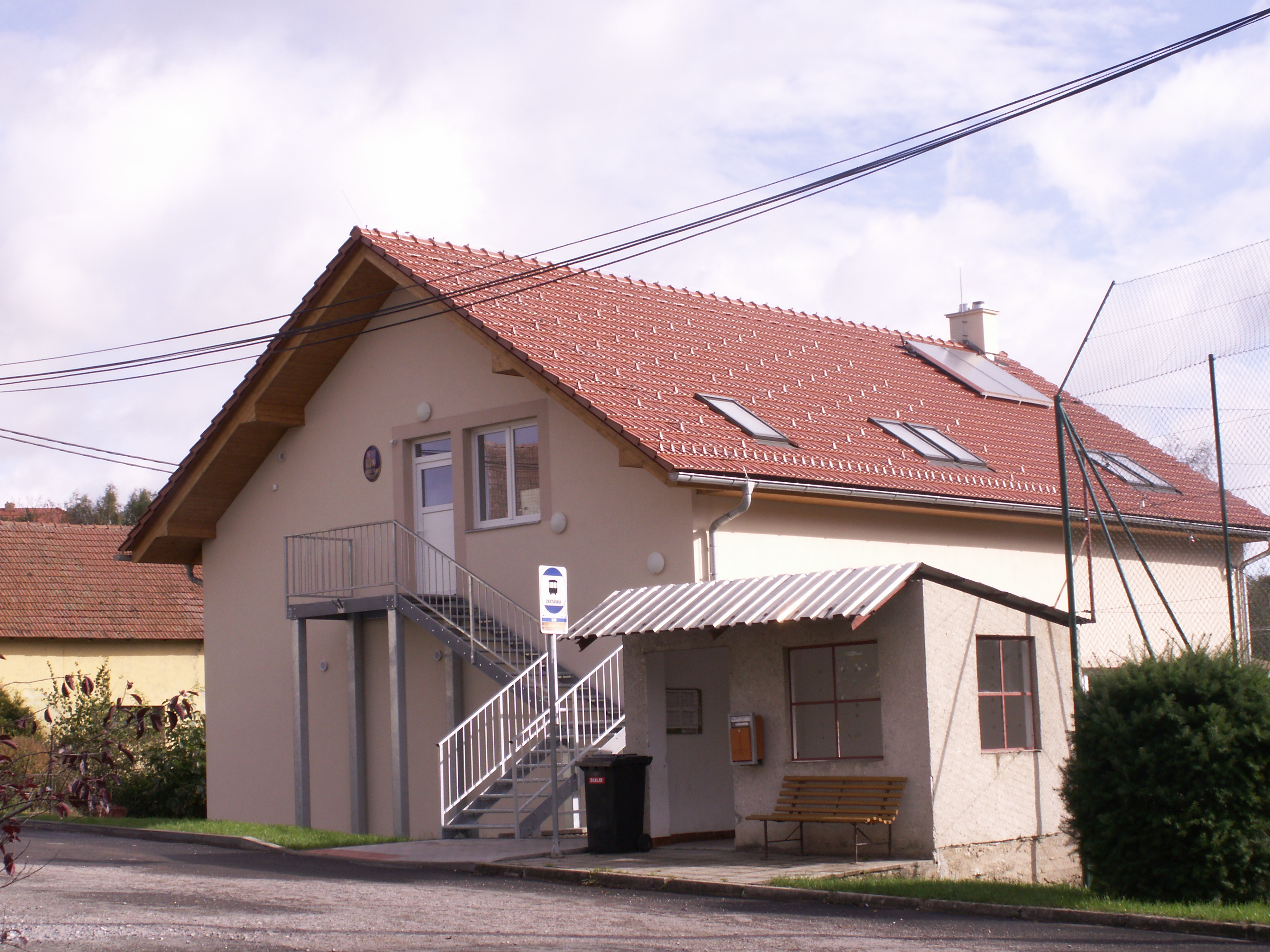 obec Úsuší, okres Brno-venkov, zastávka autobusu a budova obecního úřadu.